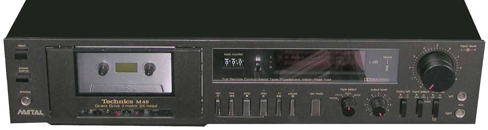 Technics M45 tape deck